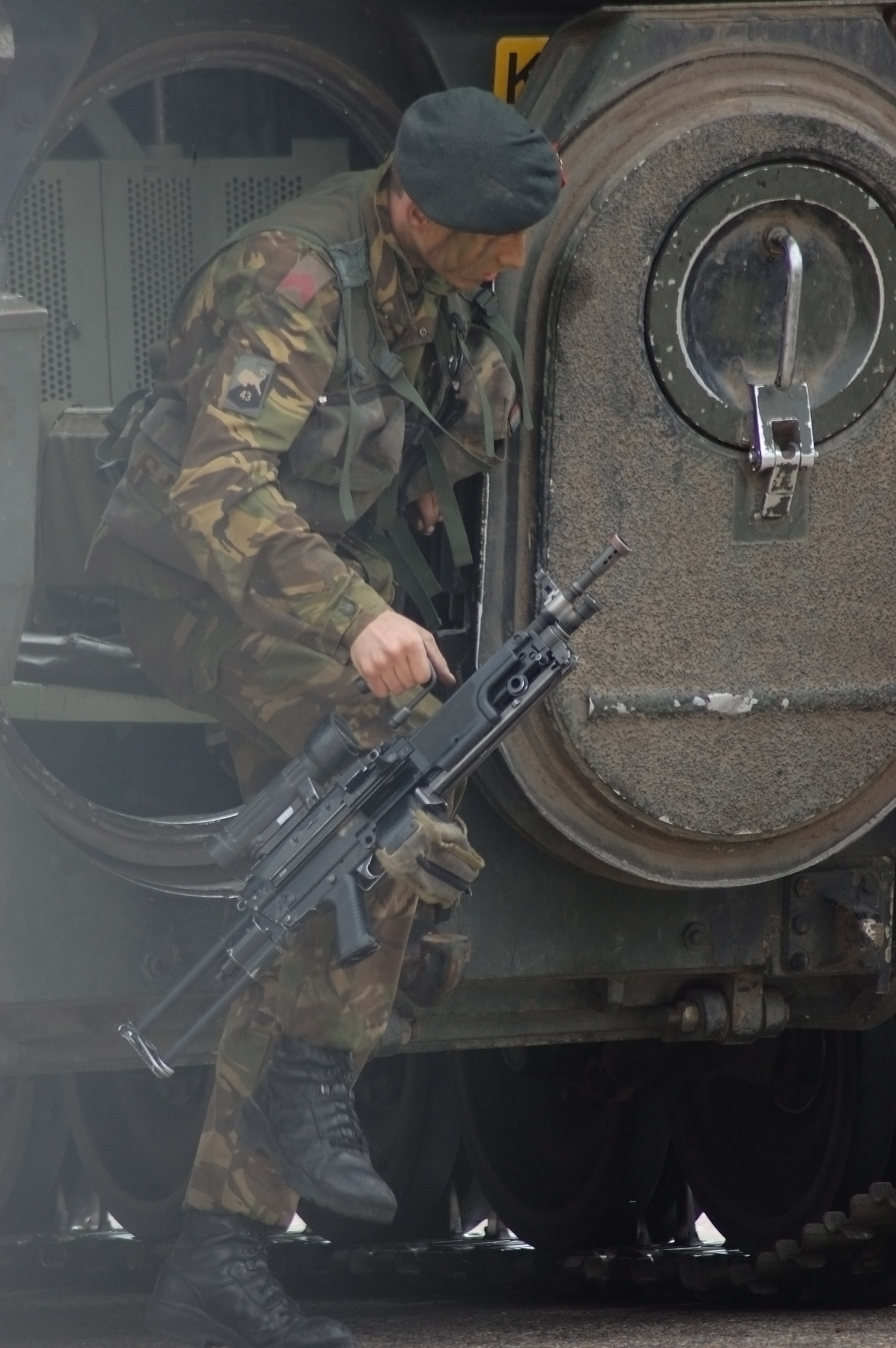 Soldier getting out of royal dutch Army truck